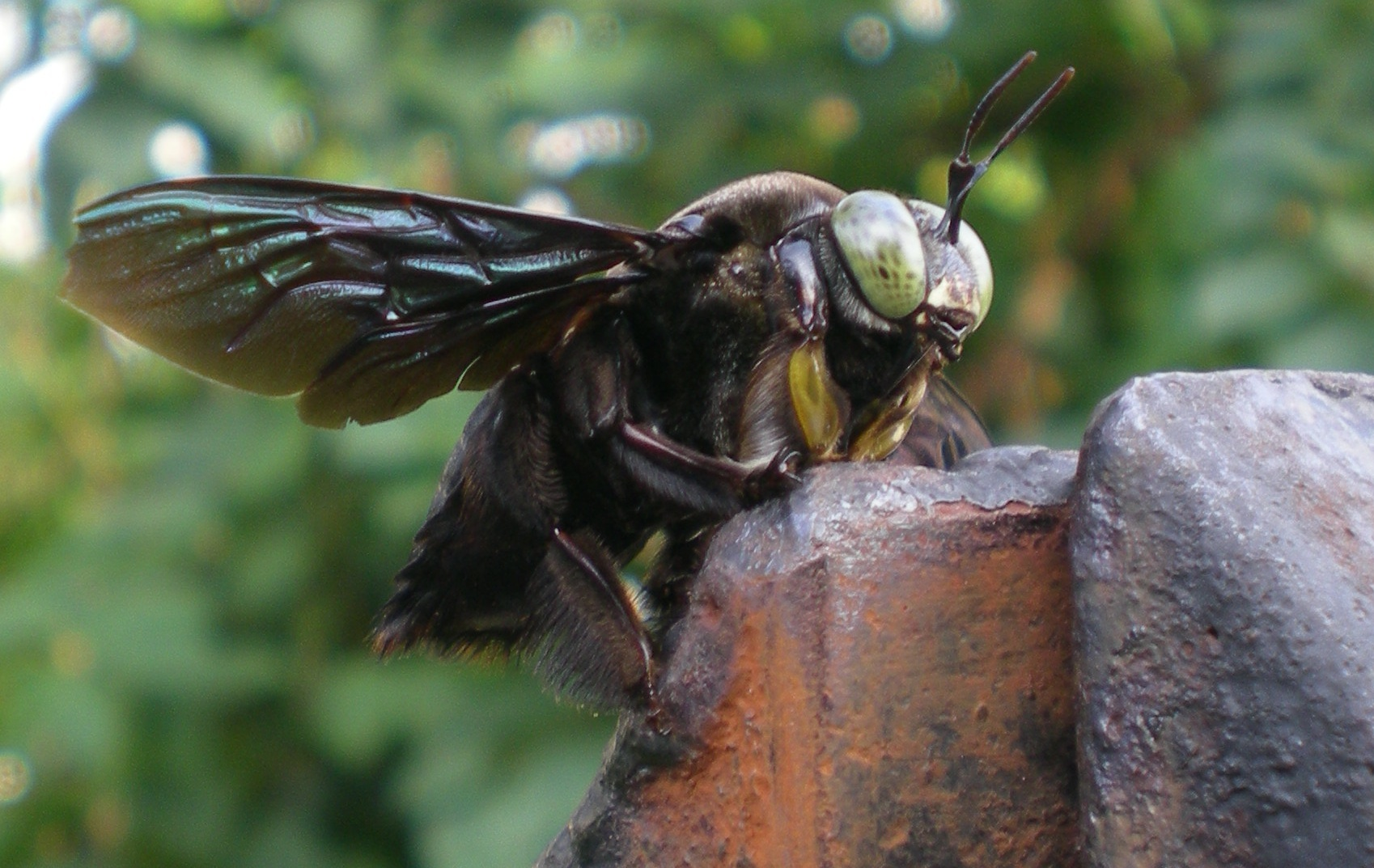 Digital photograph of Xylocopa latipes (Tropical Carpenter Bee) perched in urban setting in Kuala Lumpur May 2011